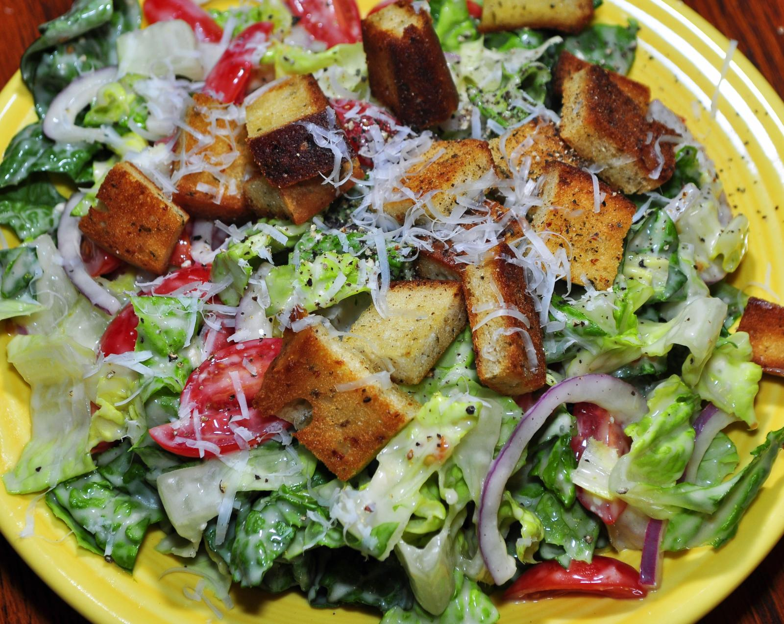 Tossed salad with toppings